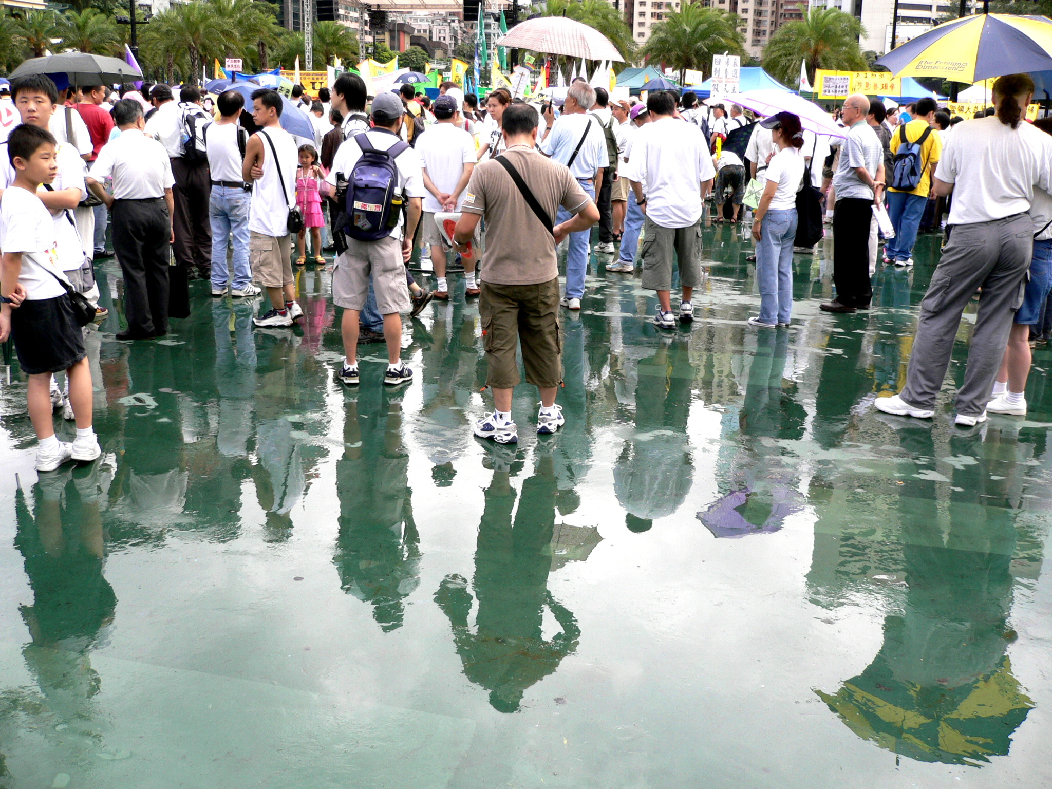 Hong Kong July 1 marches in 2005 Bân-lâm-gú: 2005-nî 7-gue̍h 1-ji̍t tī Hiong-káng ê iû-hîng. 2005年7月1日佇香港的遊行。